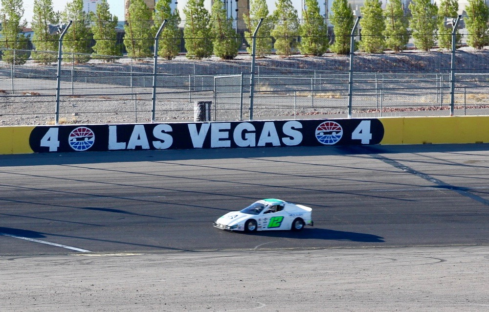 Bandolero Racing at the Bullring Las Vegas Motorspeedway